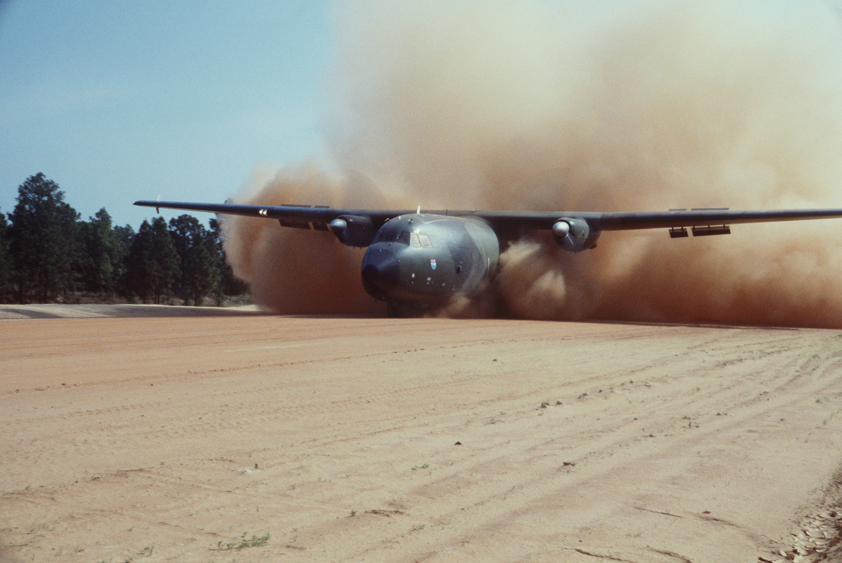 A German C-160 Transall aircraft of the Lufttransportgeschwader 63 (LTG 63, 63rd Transport Wing) makes an assault landing on an unimproved runway during the multinational tactical airlift competition Volant Rodeo ´85 at Pope Air Force Base, North Carolina (USA), on 3 June 1985.